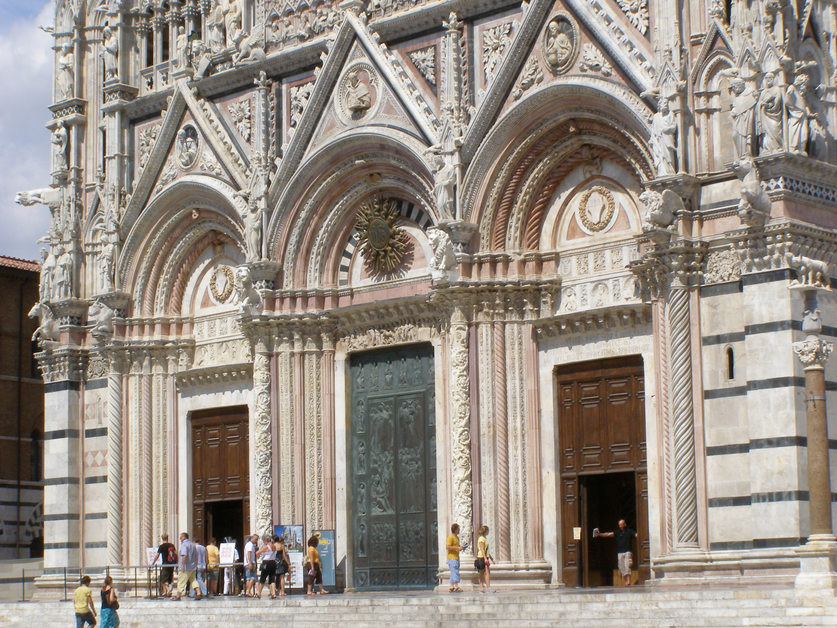 Siena - cathedral